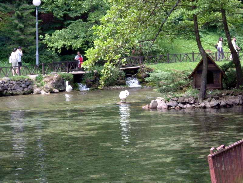 Springs of River Bosna (Vrelo Bosne)